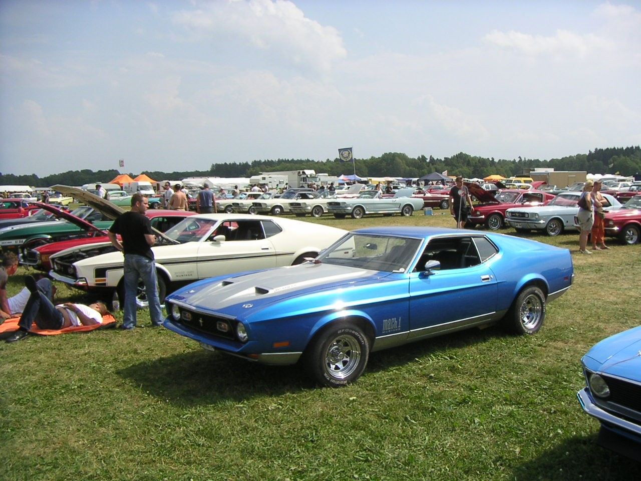 1971/72 Ford Mustang Mach 1 at Power Big Meet 2006 Mustang Club Parking Area in Västerås, Sweden